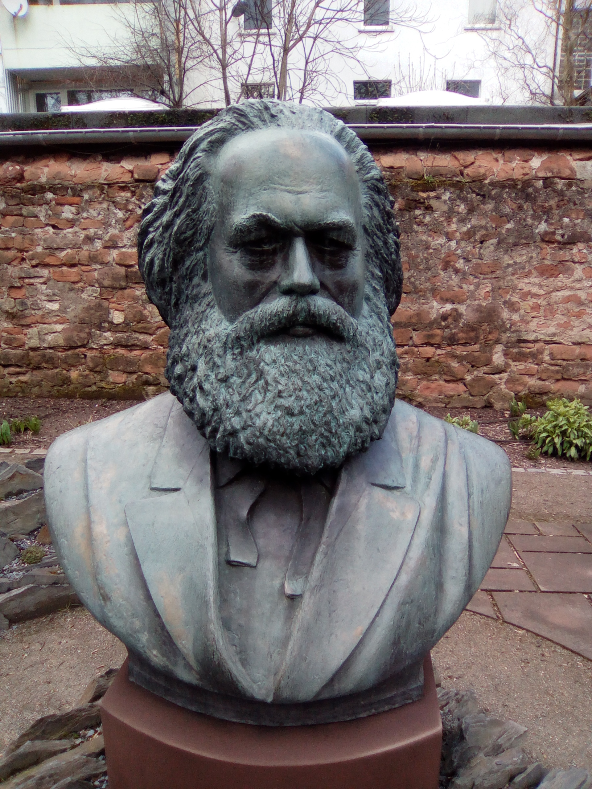 In the garden of his place of birth in Trier (Germany).